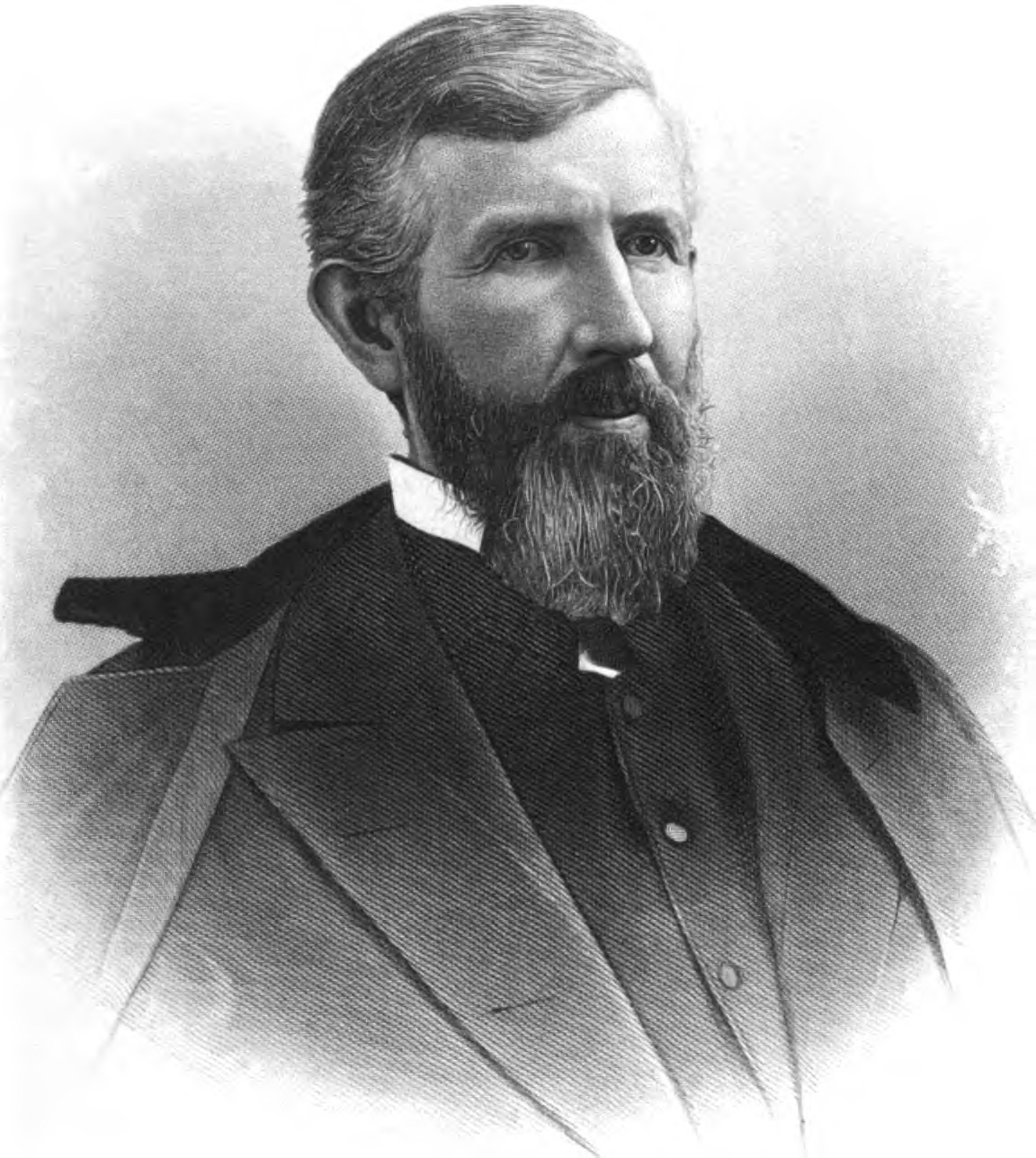 William H. West, Judge of Ohio Supreme Court and Ohio Attorney General.